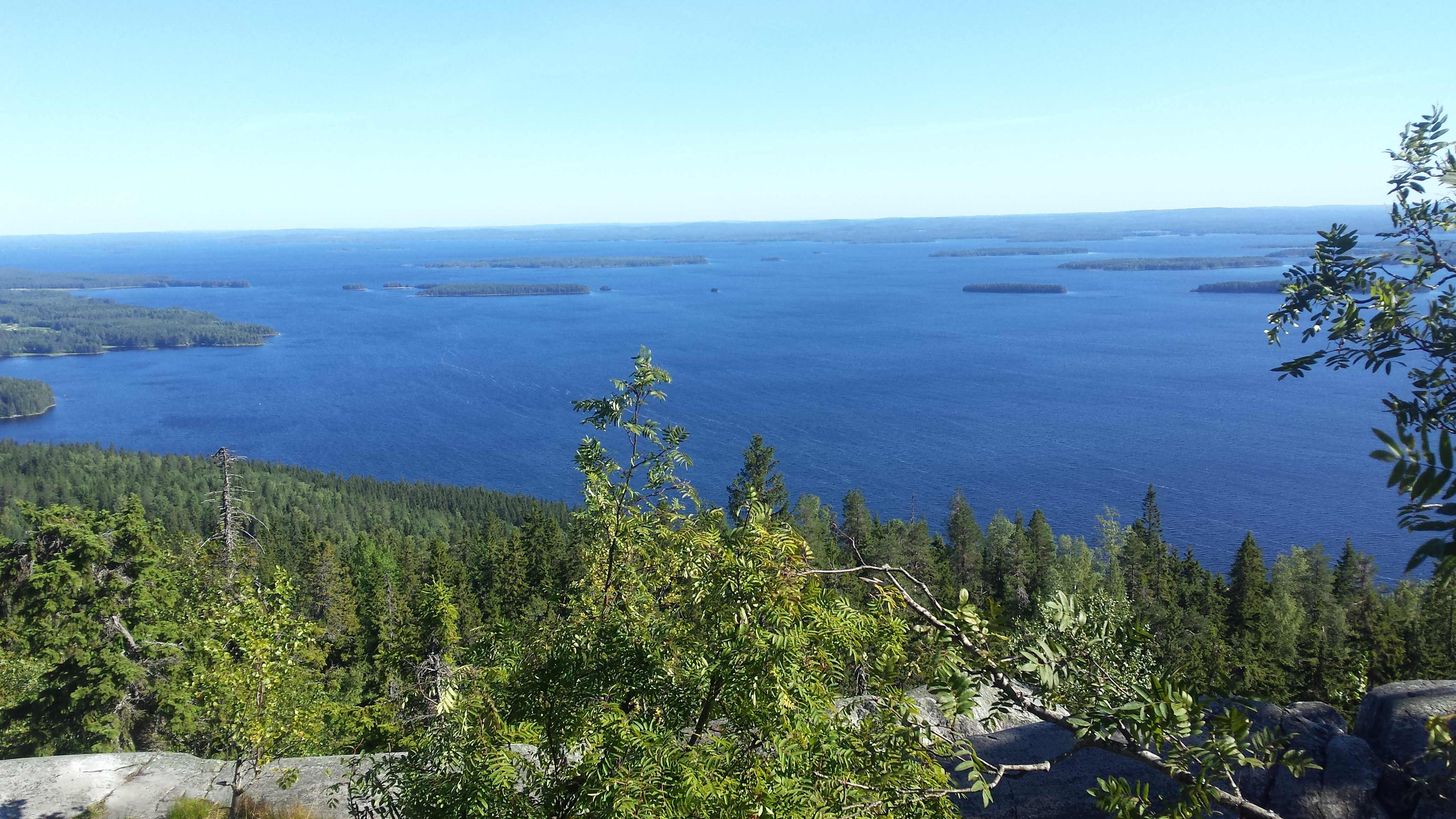 Koli National Park during summer 2015